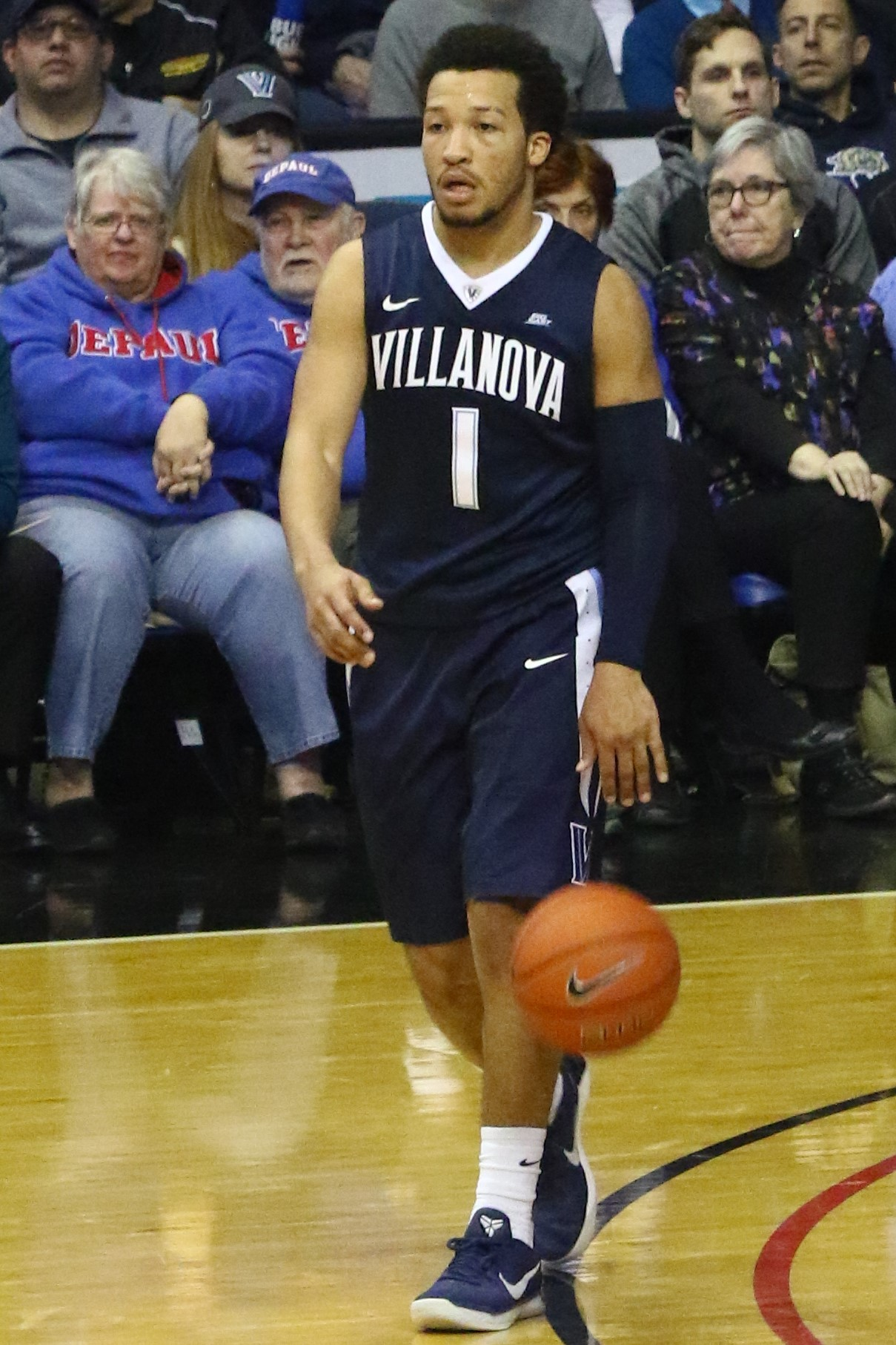 Jalen Brunson for the w:2016–17 Villanova Wildcats men's basketball team at Allstate Arena